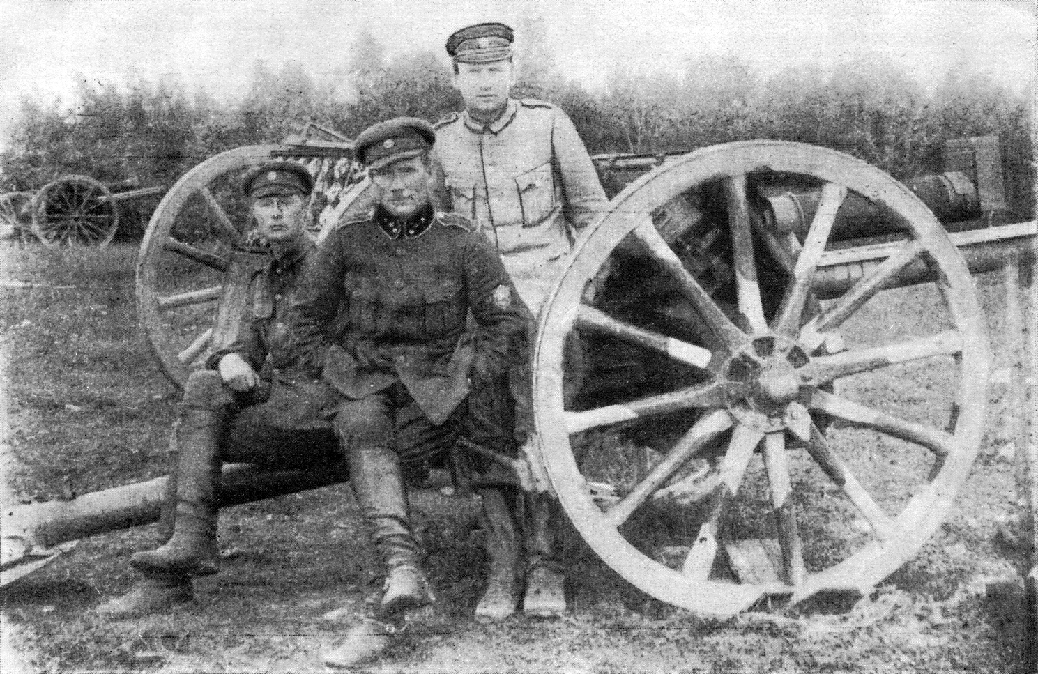 Battery No 5 of the Estonian 3rd Artillery Regiment. Commander of the battery Captain Johannes Roska in the middle.